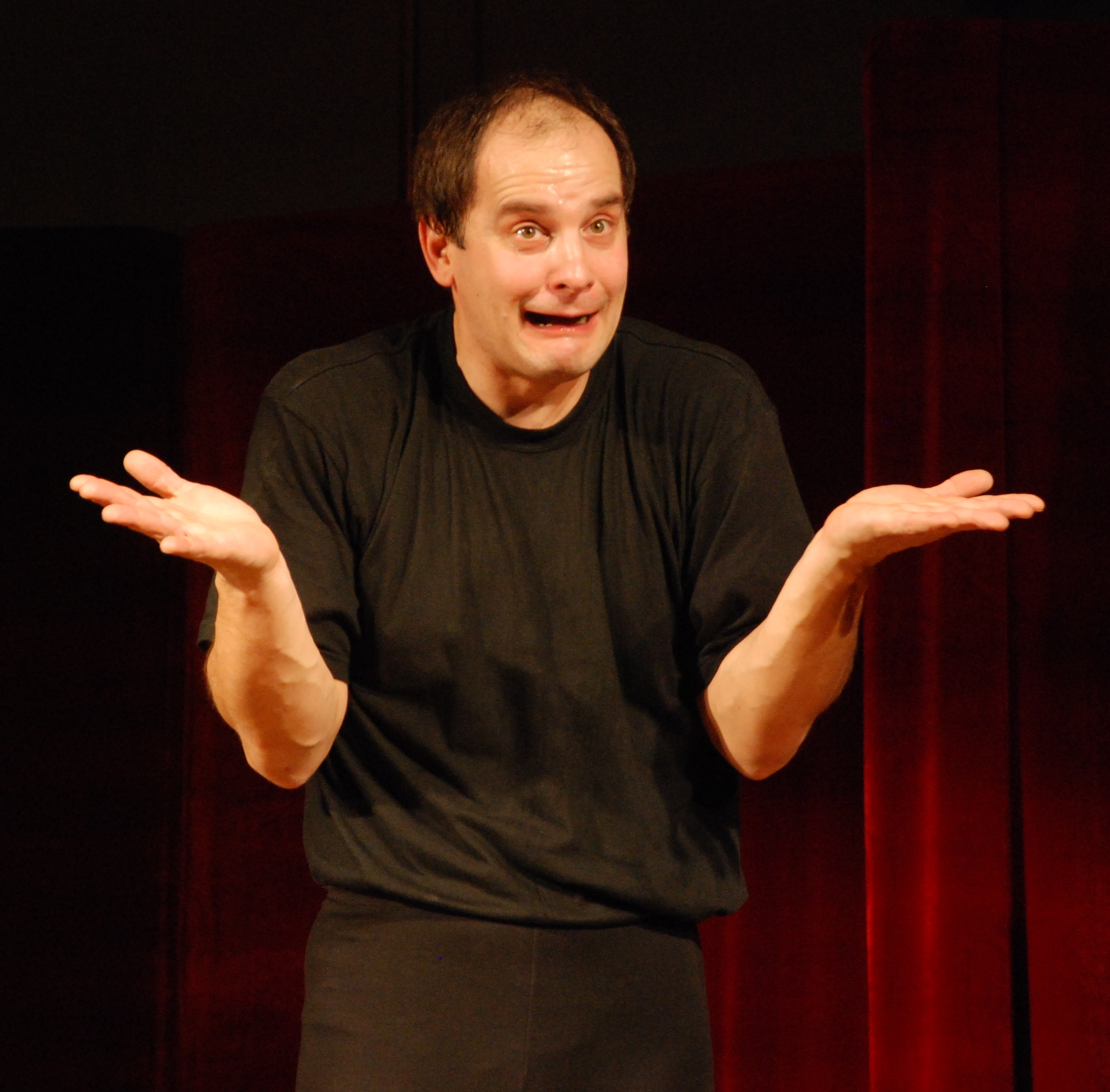 Ireneusz Krosny of the Theathre of One Mime during his performence on the fourth day of the 2007 Festival of Cabaret in Zielona Góra.